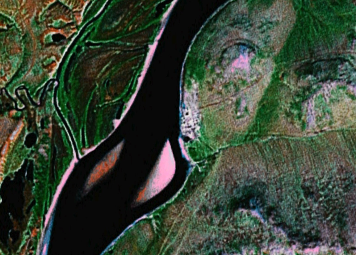 Satellite Image of Snezhnoye Chukotka, Russia